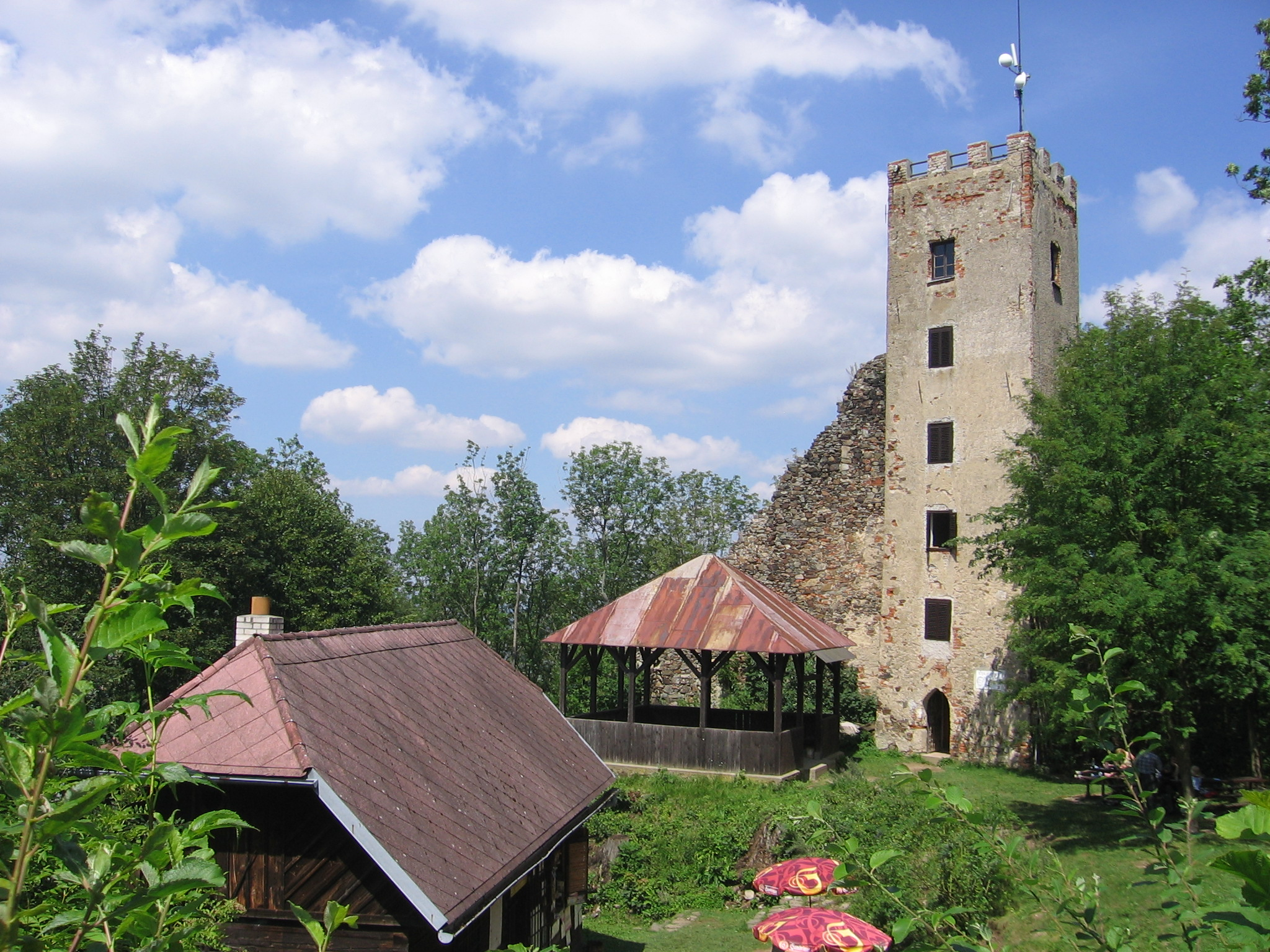 Castle Rýzmberk